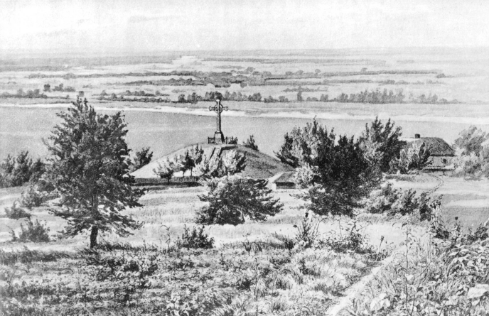 Grave of Taras Shevchenko.